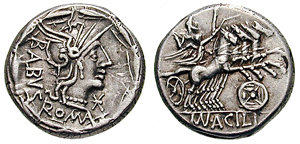 Manius Acilius Balbus. 125 BC. AR Denarius (3.95 gm) OBVERSE: inscription BA(L)BVS, with the head of Pallas, before which is X. and beneath Roma, the whole within a laurel garland REVERSE: MV. Acili, with Jupiter and Victory in a quadriga